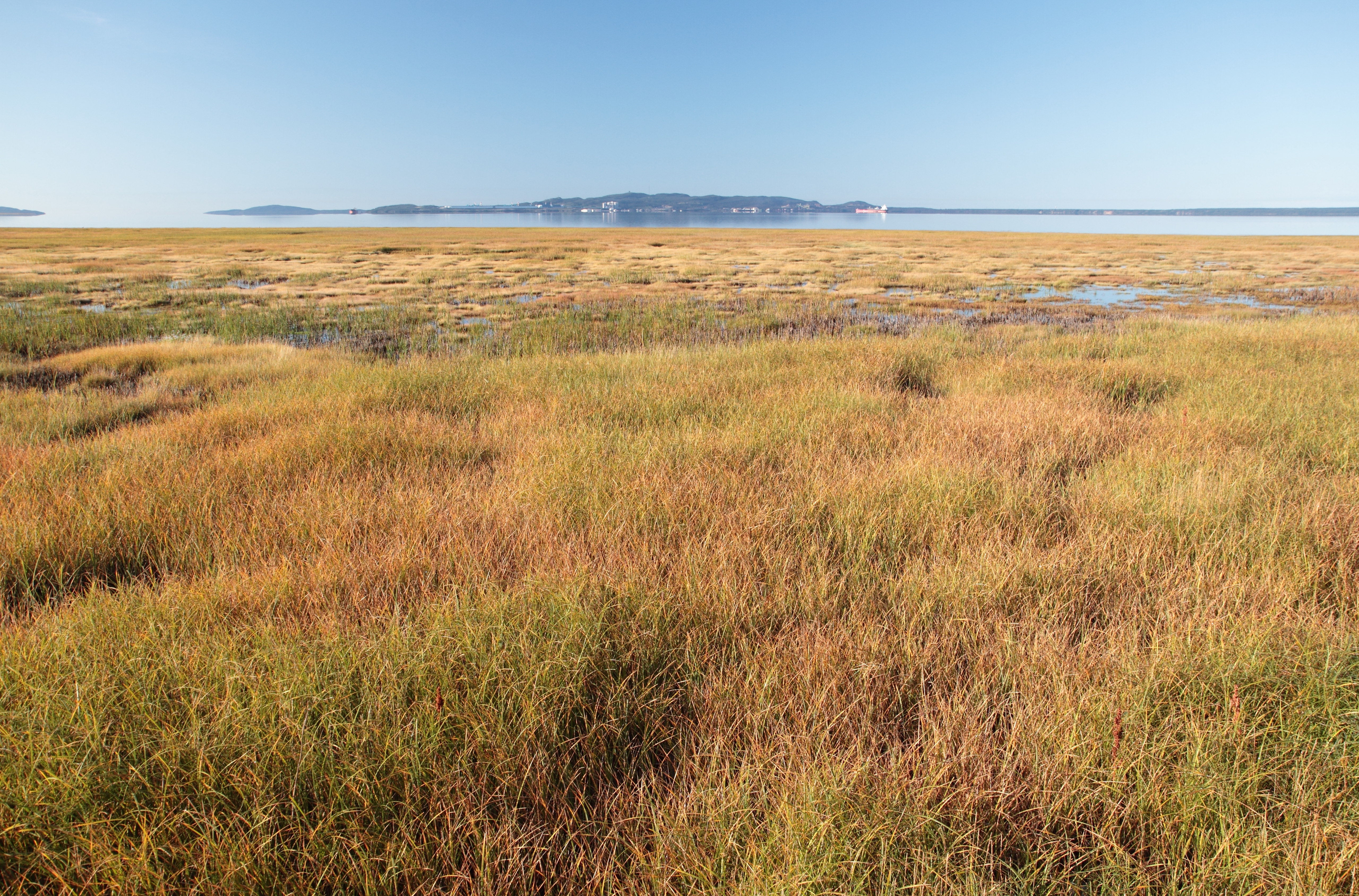 Salt marsh mainly populated by Spartina alterniflora. Sept-Îles, Quebec, Canada